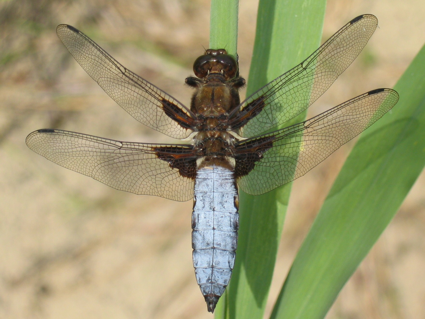 A male Broad-bodied Chaser (Libellula depressa), picture taken by Tim Bekaert in De Panne, Belgium (July 3, 2005)